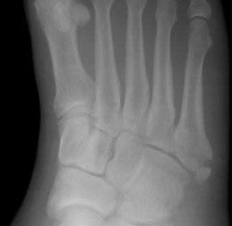 This is a retouched picture, which means that it has been digitally altered from its original version. Modifications: cropped. The original can be viewed here: JonesFracture1.jpg. Modifications made by Mdscottis. Original work by Alison Cassidy.